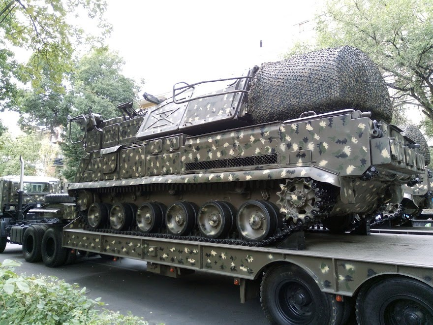 Buk-M1-2 in Yerevan